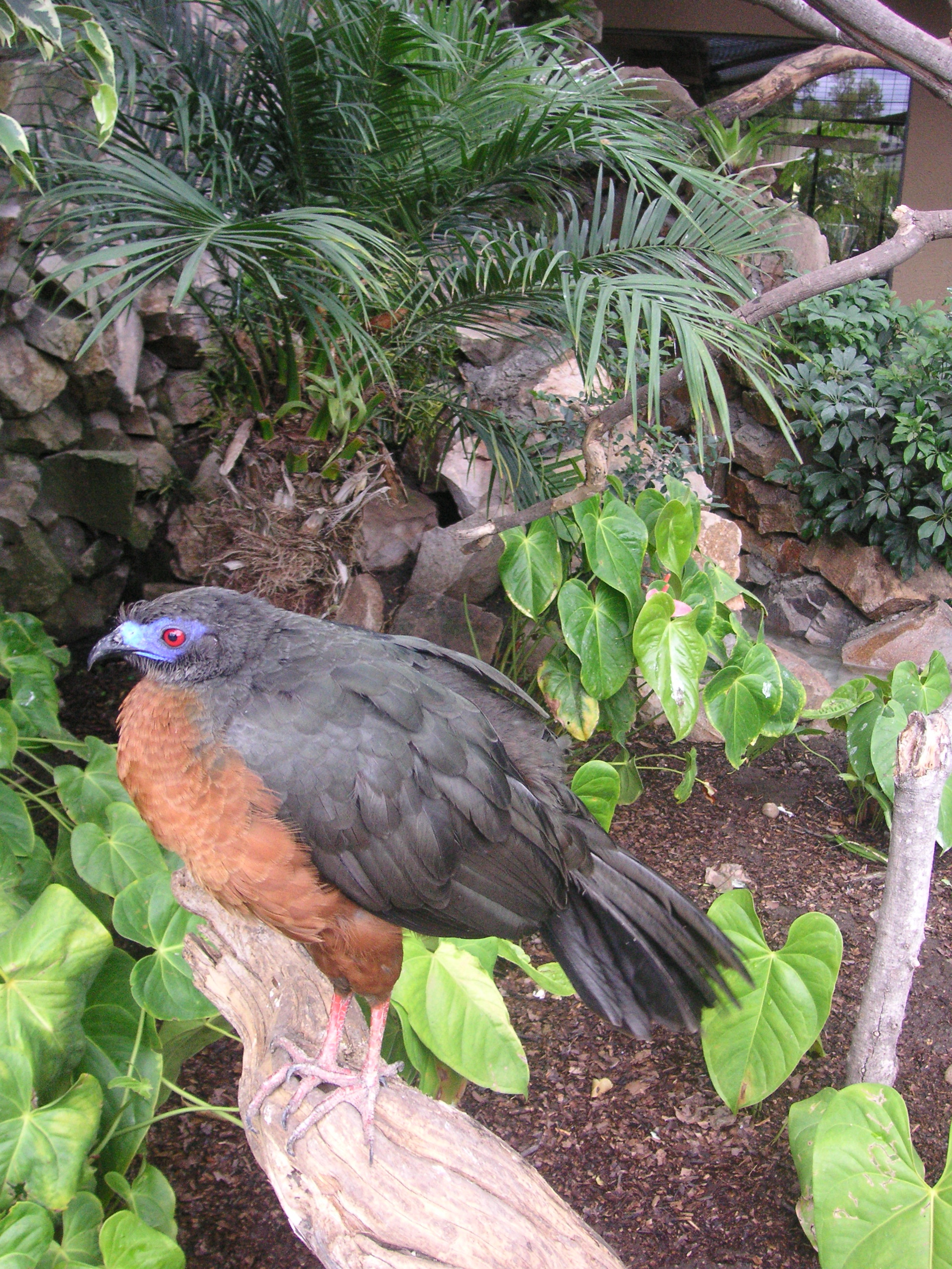 Sickle-winged Guan, Chamaepetes goudotii, Cuenca, Ecuador